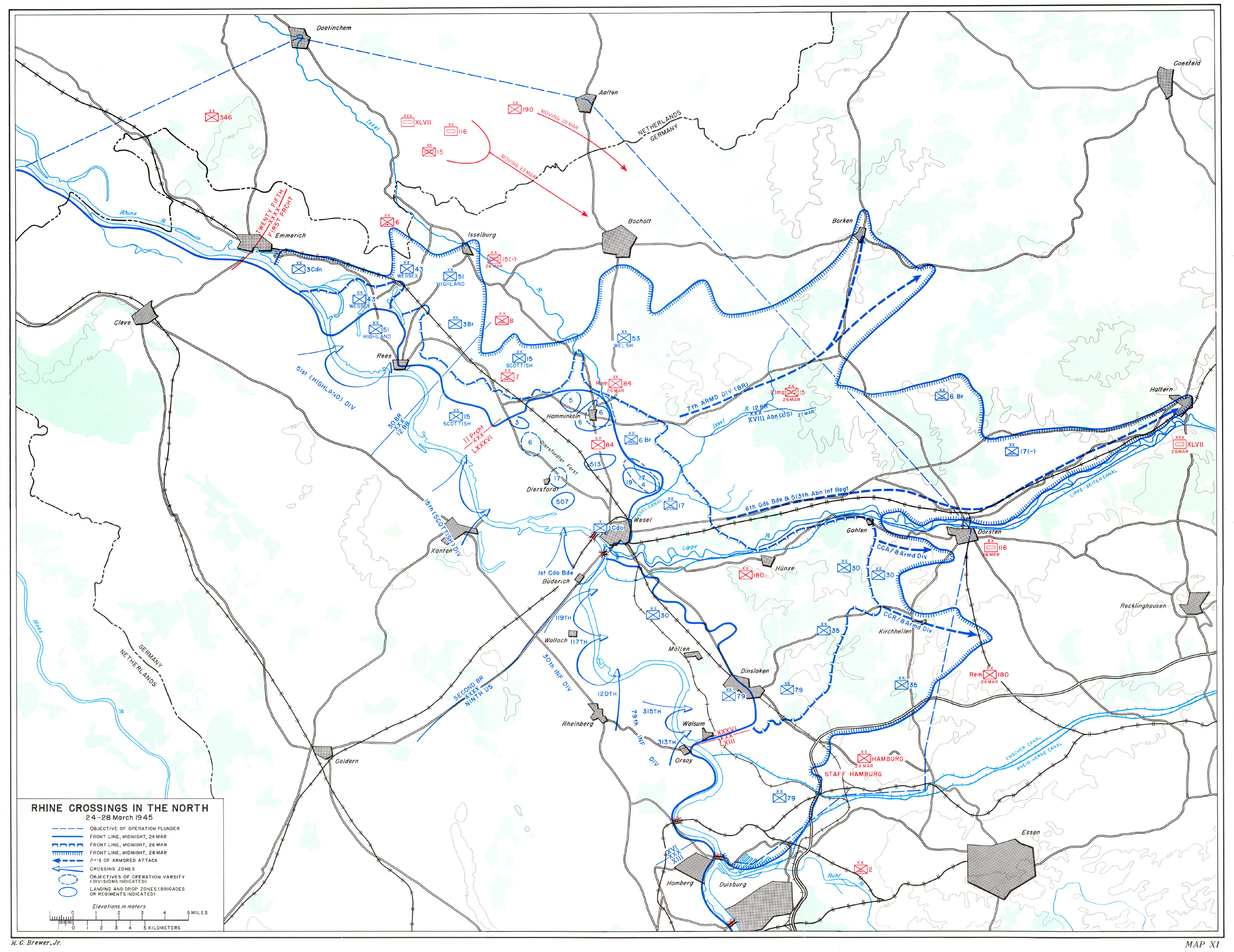 Rhine Crossings in the North 24-28 March 1945